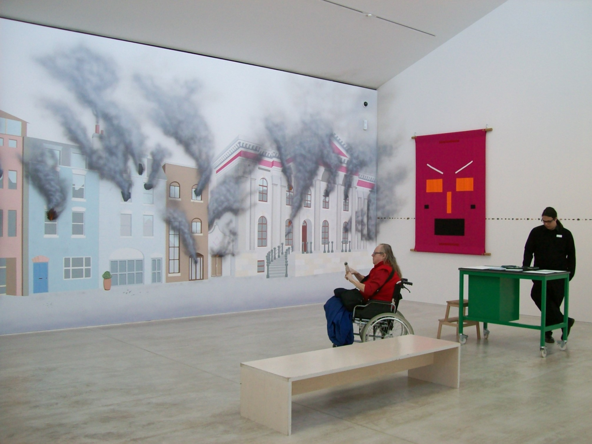 The final room in Jeremy Deller's exhibition English Magic at Tate Contemporary, Margate